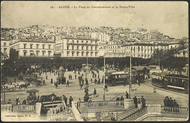 Postcard of Algiers, early 20th century Creator: Idéale Date: early 20th century Accession number: ZPC2 A1A4 Featured in the exhibition, Walls of Algiers: Narratives of the City, May 19 - October 18, 2009 at the Getty Research Institute. Part of the Cities and Sites Postcard collection in the Getty Research Institute Library's special collections. View the library record for this collection.